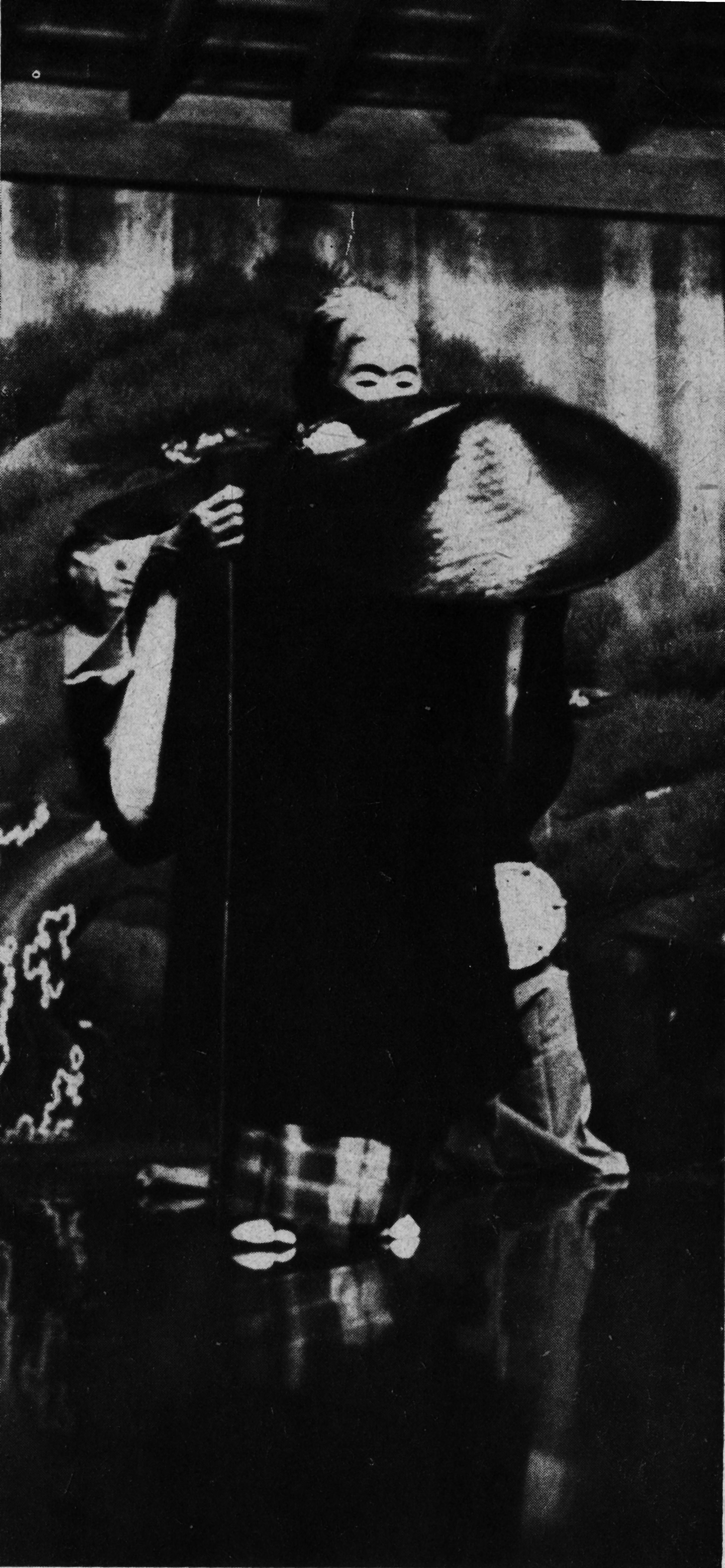 stage photo: Noh play Sotoba Komachi, KONPARU Mitsutaro(Hachijo)